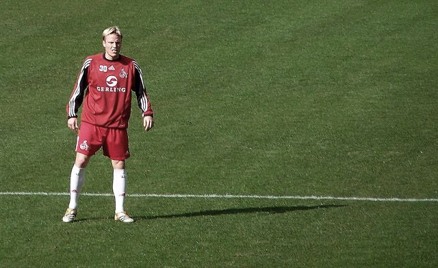 Christian Lell of Bayern München warming up for his last Club, 1. FC Köln